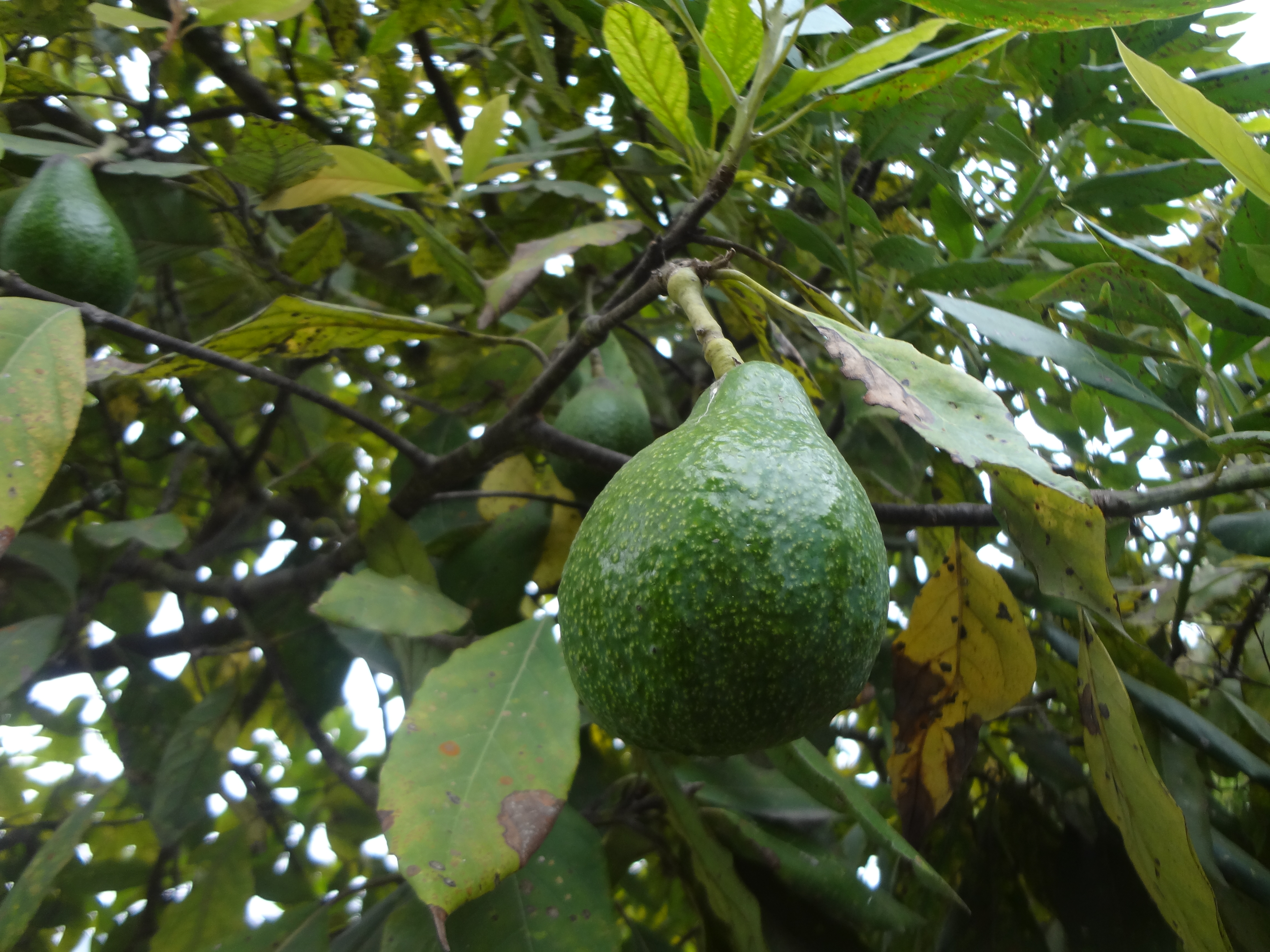 Hacienda Chorlavi is set on a sprawling estate dating from 1620, this relaxed hotel is 7 km from Ferrocarril Ibarra train station and 12 km from Lake Yawarkucha. Simple, country-style rooms provide cable TV, fireplaces and safes. Suites add extra space, and some also feature Wi-Fi access, minibars and whirlpool tubs. Parking and a breakfast buffet are complimentary. There's an outdoor pool, a laid-back restaurant and a karaoke bar, as well as BBQ facilities and a tavern. Other amenities include a hammam, a soccer pitch, a volleyball court and a mini-golf course.billiard table